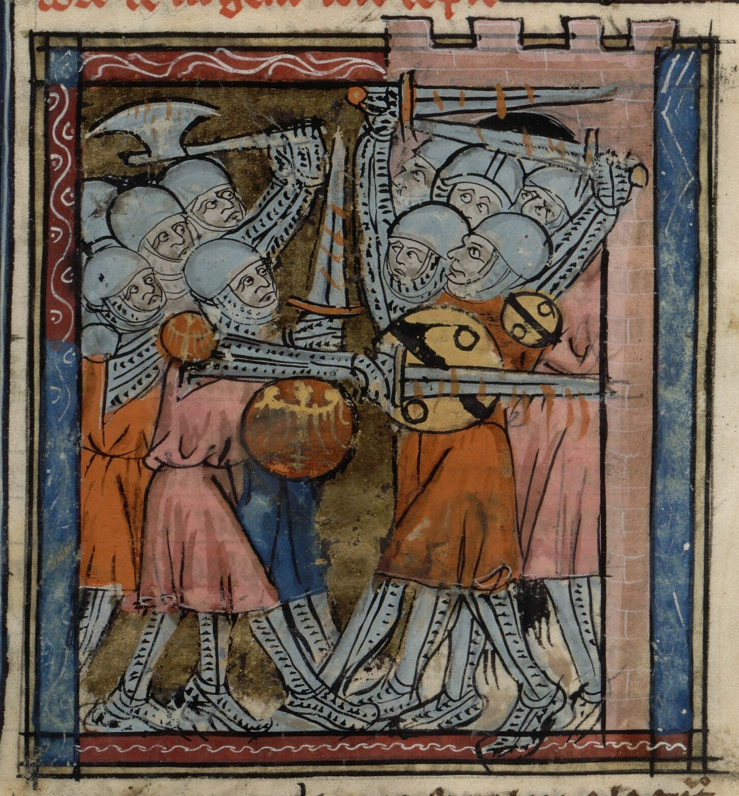 Battle of Nish 1096